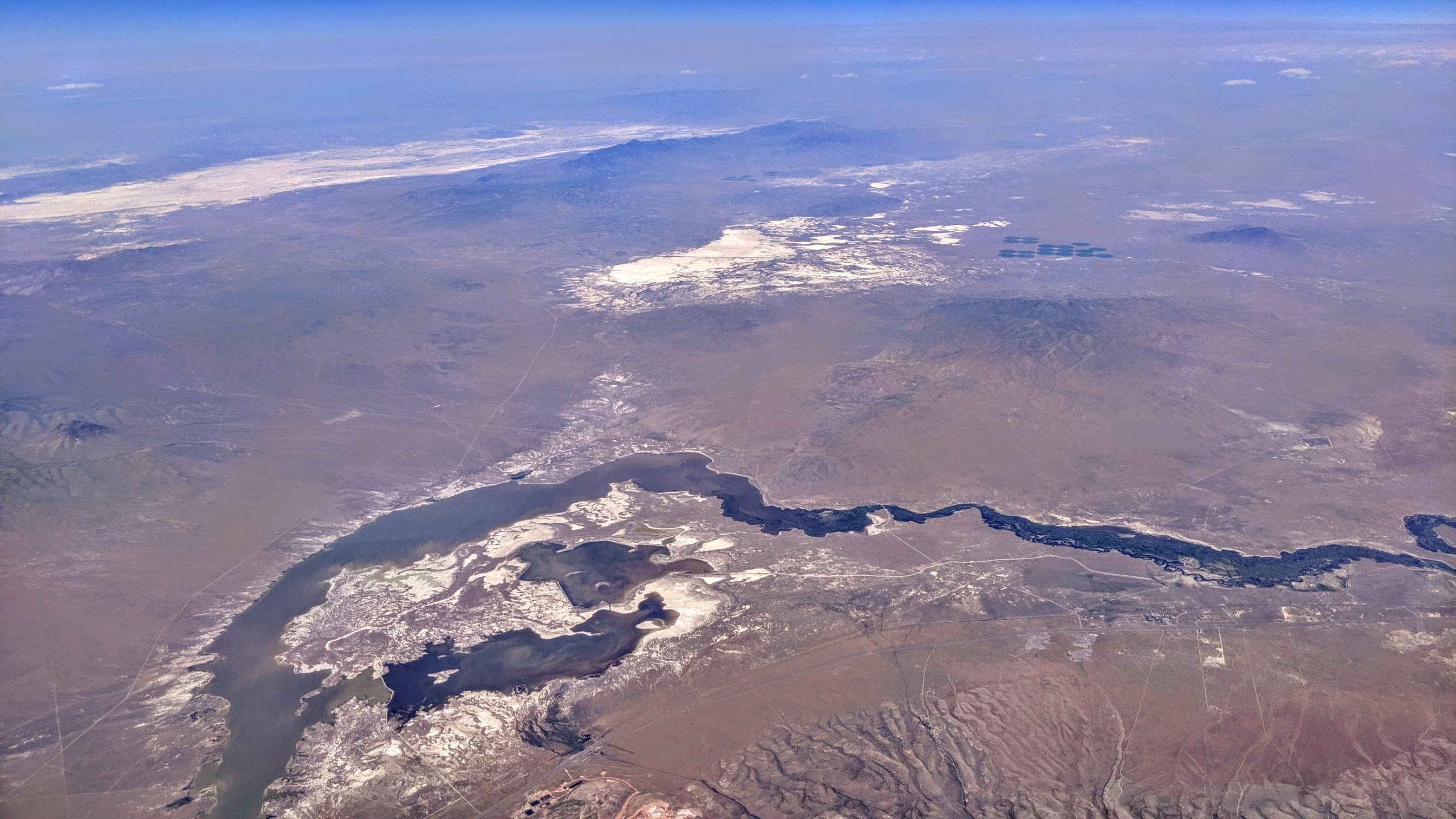 Aerial view of Rye Patch and upper and lower Pitt-Taylor Reservoirs and Lassens Meadows on the Humboldt River in Nevada in 2019, filled from a very wet winter and spring